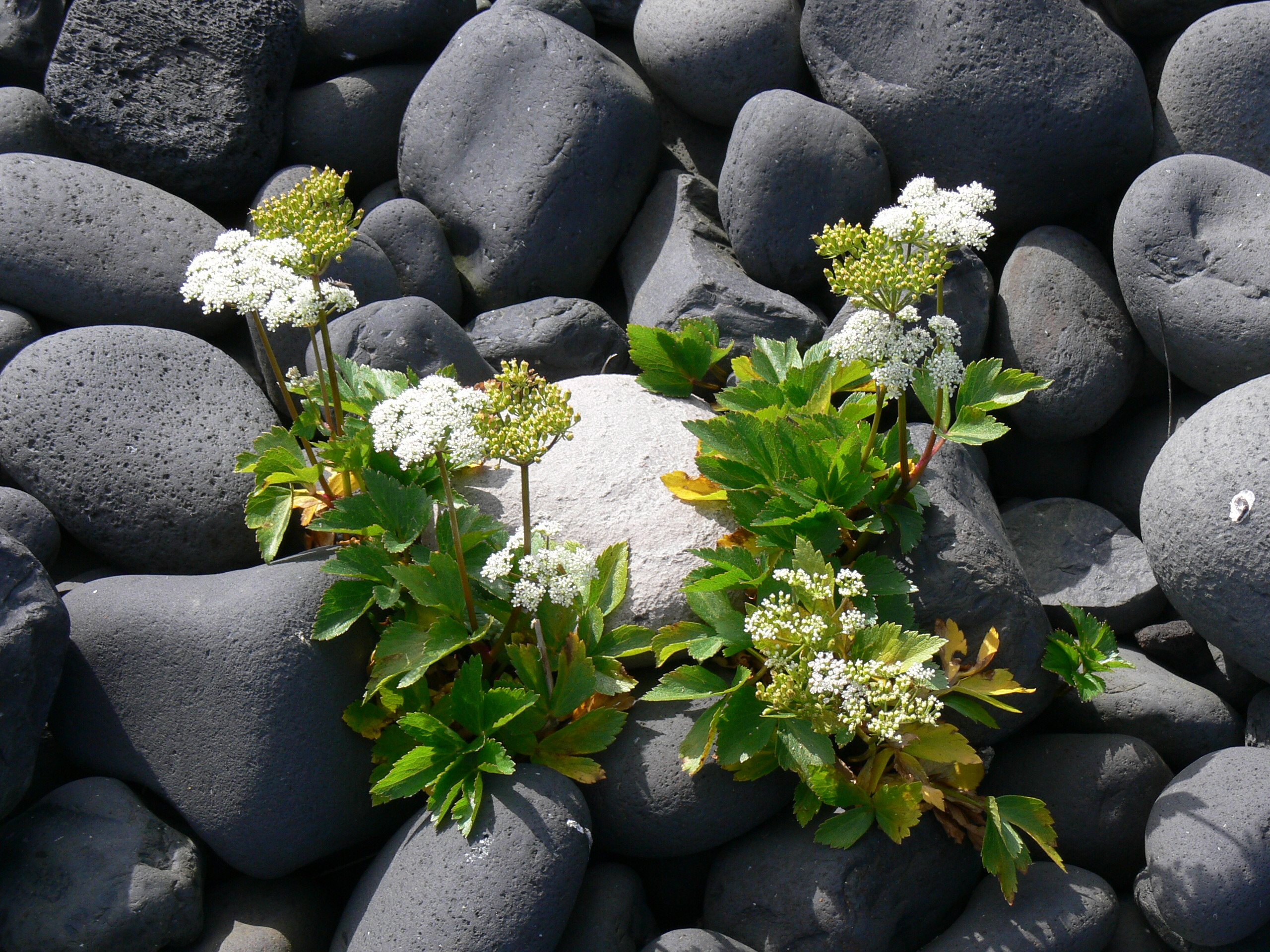 Dritvík. Vegetation at the beach.